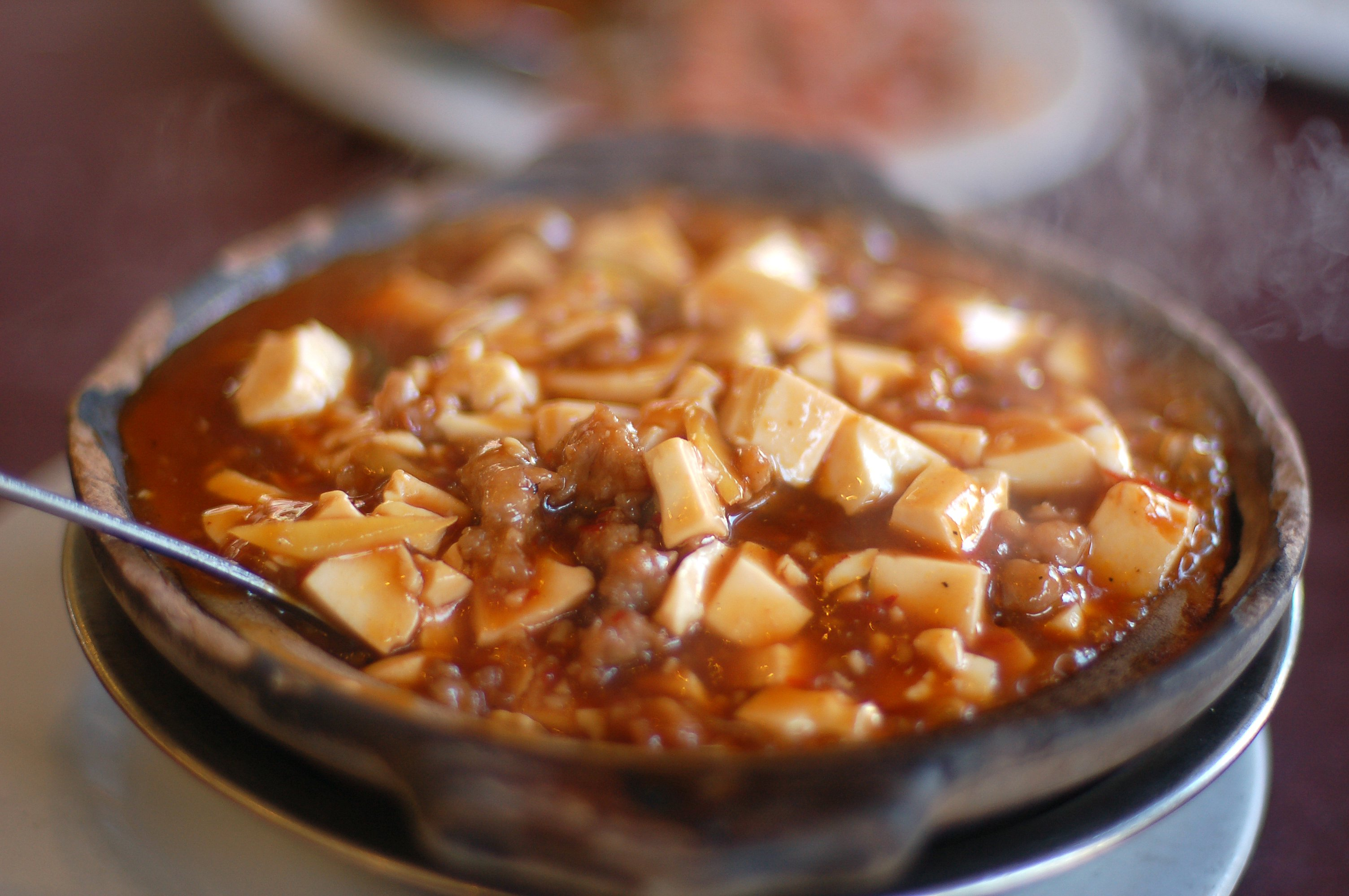 Photo was taken myself in a restaurant in San Francisco Chinatown. The picture was great, the mapo was just OK.